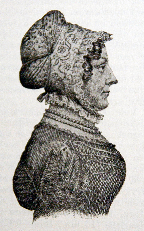 Katharina Wilhelmina Bilderdijk-Schweickhardt (1776-1830)